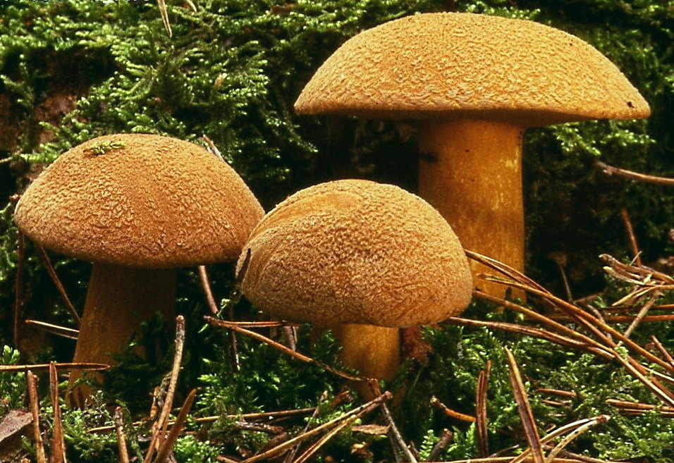 This image is the work of photographer Zonda Grattus, aka User:luridiformis. He is the sole owner and copyright holder of this photograph, and holds the original 35mm slide. He agrees to publish it under the Own Work, Creative Commons Attribution 3.0 License.